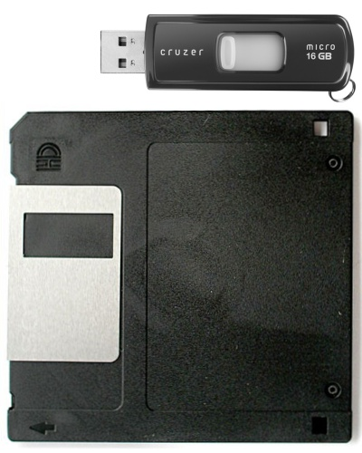 The Size of a 16 GB Flash Drive compared to a Floppy Disc.